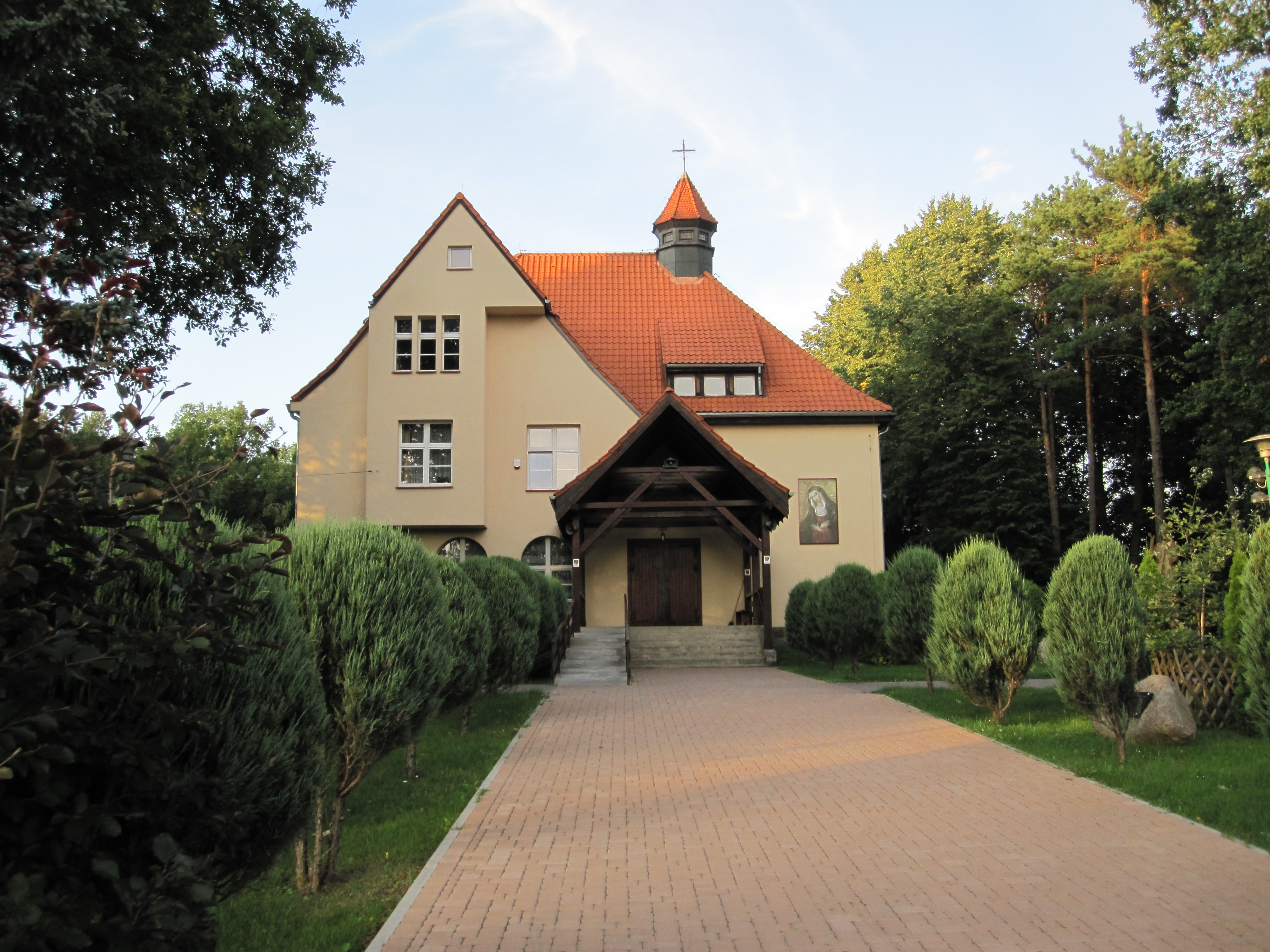 Our Lady of Mercy church in Ruciane-Nida